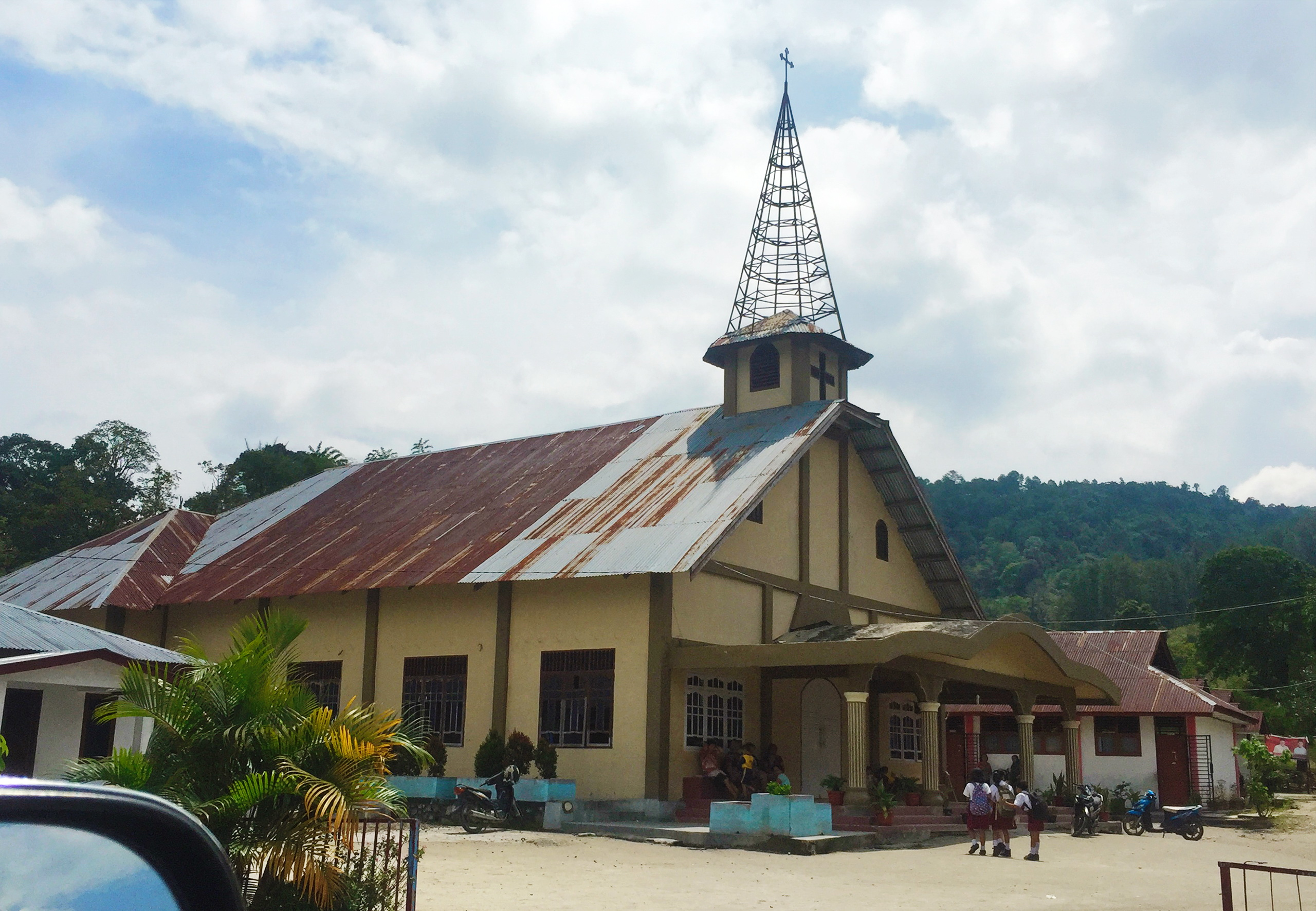 HKBP Sitompul, Church in Sitompul, Siatas Barita, North Tapanuli